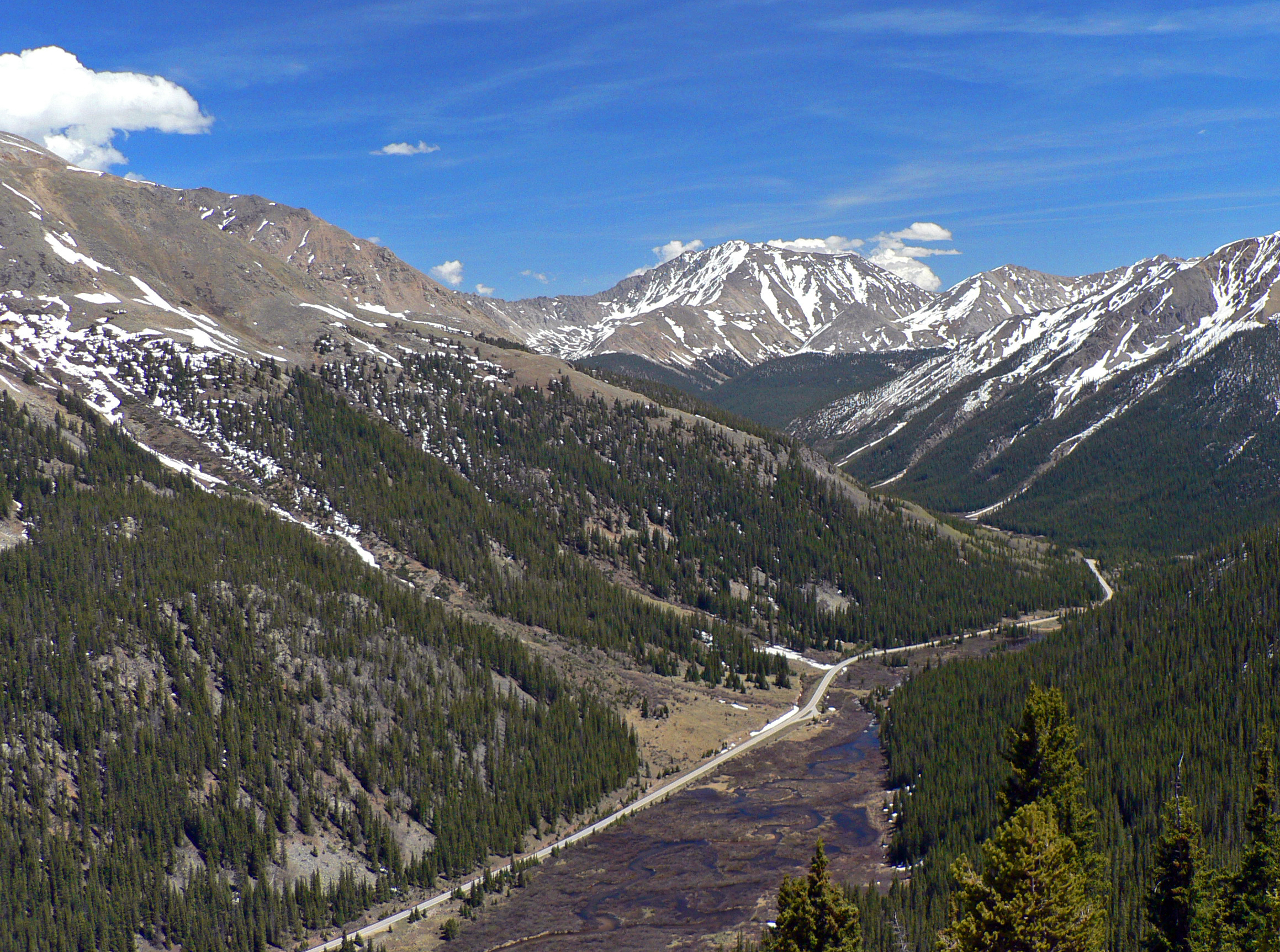 View east from scenic overlook along Colorado State Highway 82